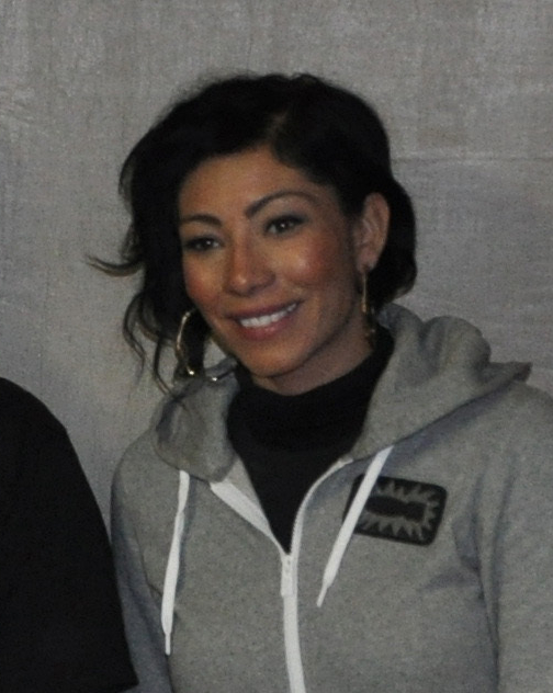 Grammy-winning singer and songwriter Bridget Kelly at Bagram Air Field, Afghanistan.